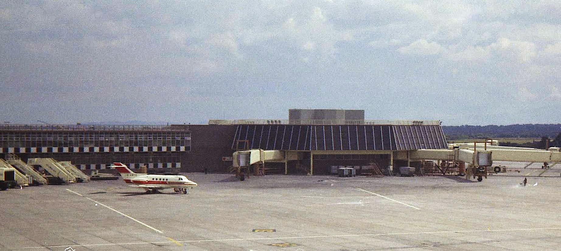 Ireland, Dublin. The apron of Dublin Airport in August 1971.